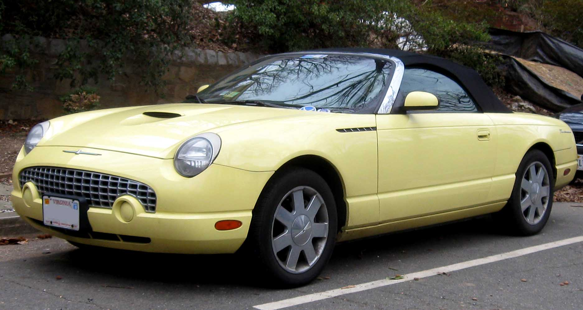 2002-2005 Ford Thunderbird photographed in Alexandria, Virginia, USA.